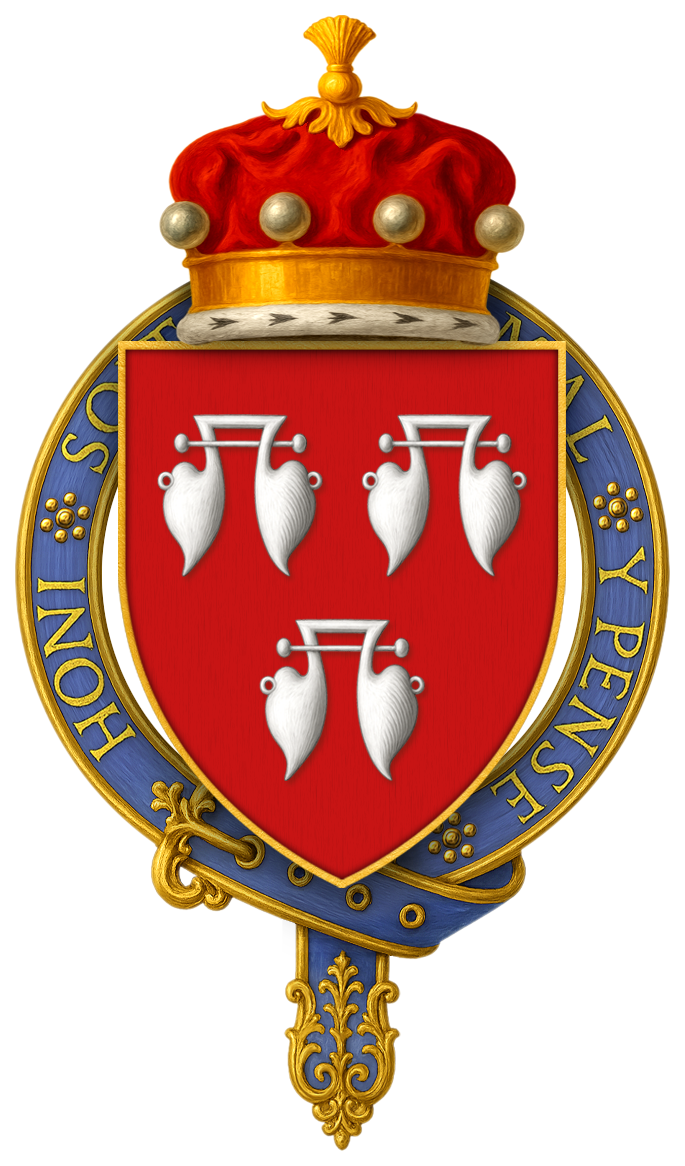 Coat of Arms of Sir William de Ros, 6th Baron Ros, KG BURKE, Sir Bernard, The General Armory of England, Scotland, Ireland, and Wales: Comprising a Registry of Armorial Bearings from the Earliest to the Present Time, London: Harrison & sons, 1884. “ Ros (Baron Ros; descended from Peter de Ros, feudal Baron of Ros, in the lordship of Holderness, co. York...) Gu. three water bougets ar. ”